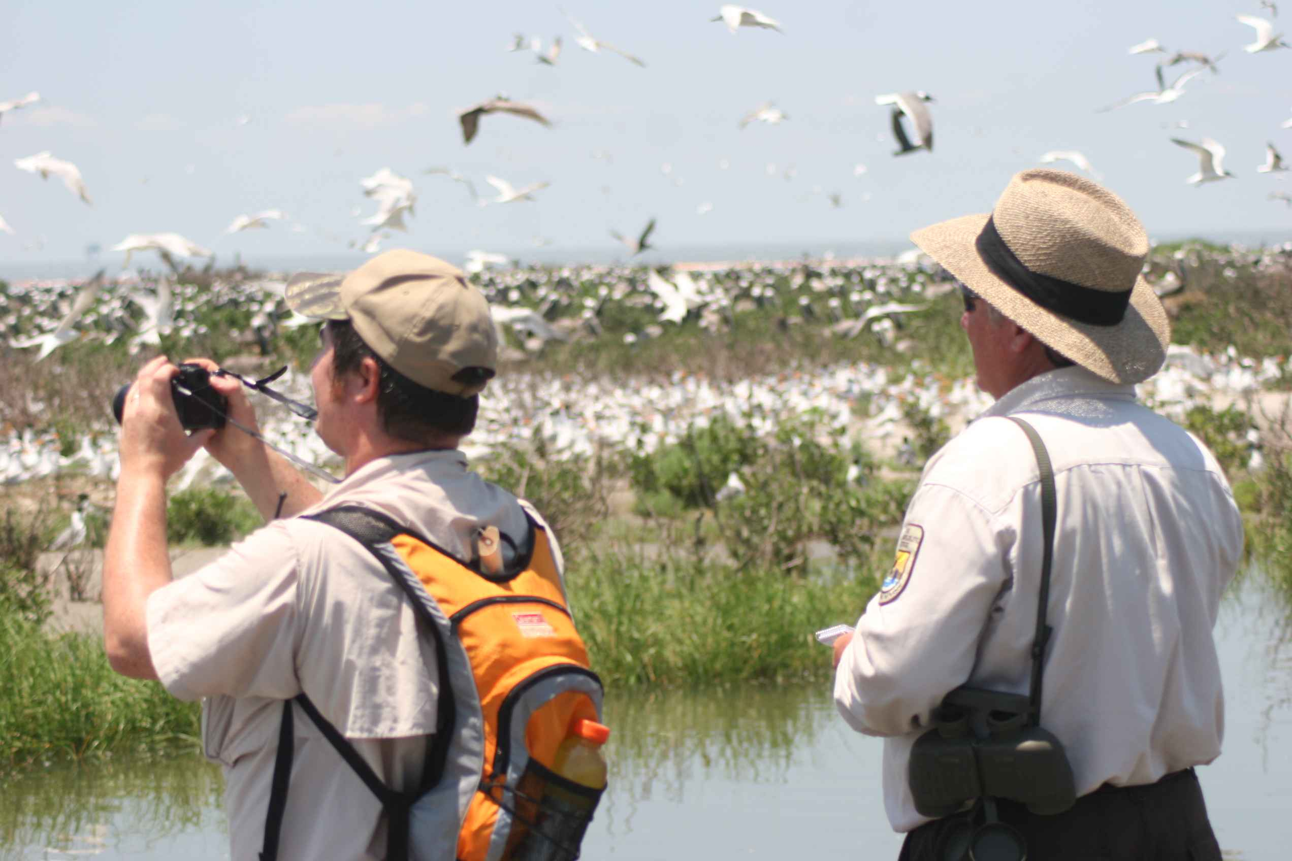 Image title: Birdwatching on a beach Image from Public domain images website